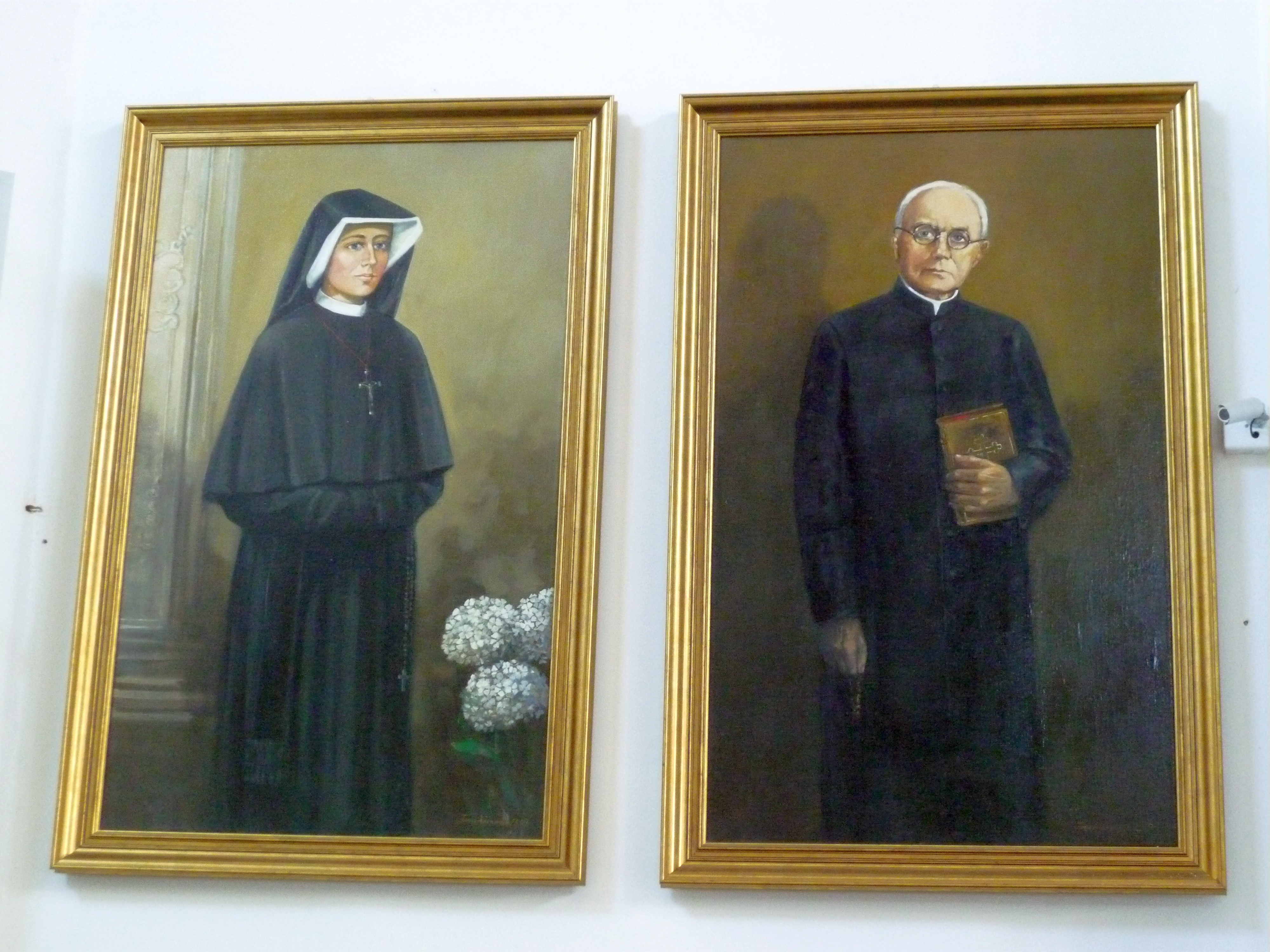 Church of the Holy Cross in Łomża - pictures of sister Faustyna Kowalska e rev. Michał Sopoćko